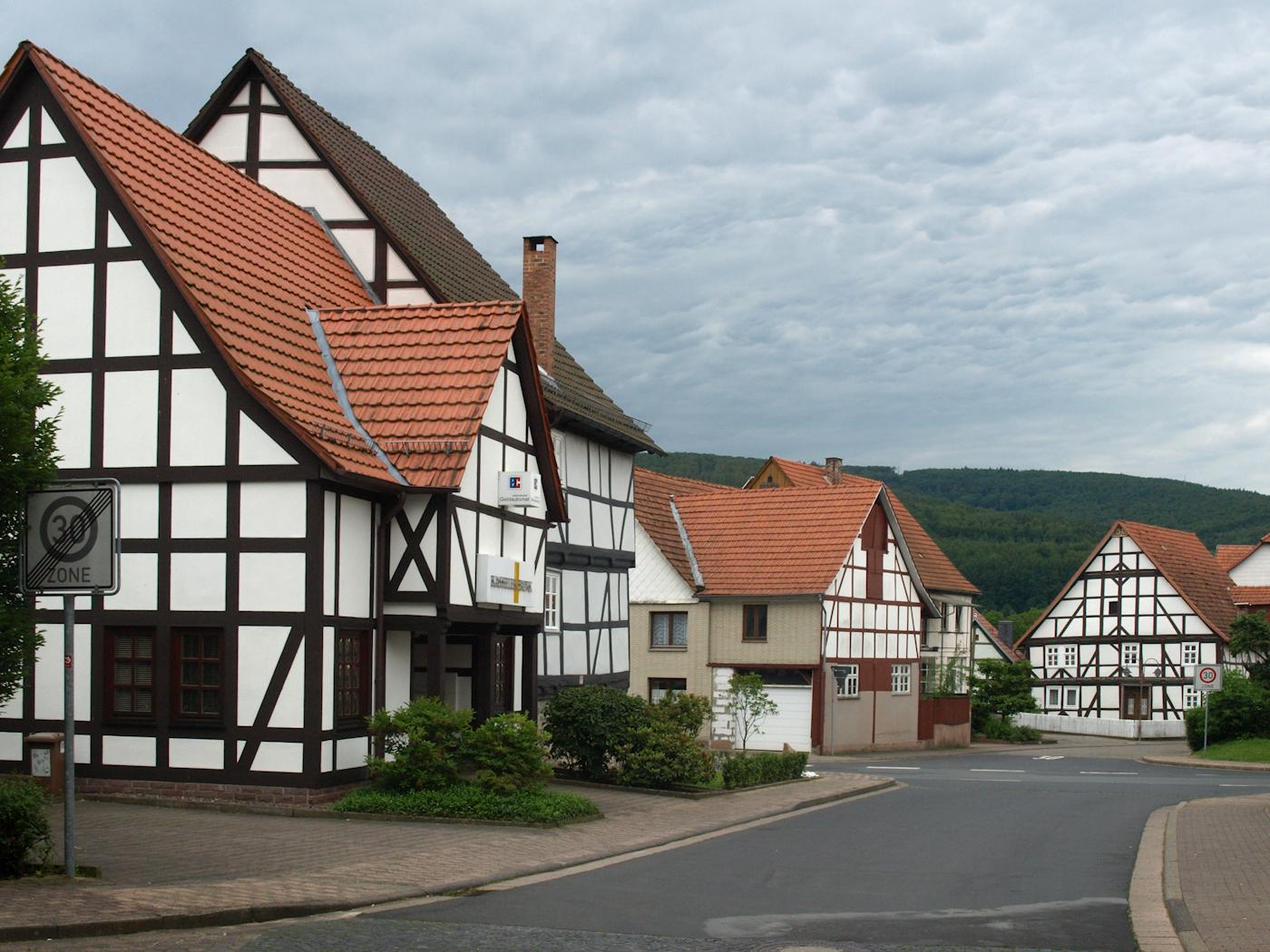 Oedelsheim (Oberweser), Hessen ,Germany, Oberdorfstraße, photo 2012